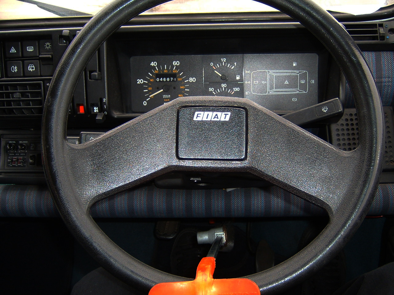 Fiat Panda Mk1